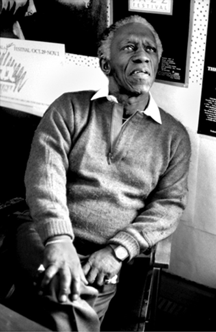 Jazz drummer and band leader Art Blakey at radio interview, KJAZ, Alameda CA 11/10/1982. (photo: Brian McMillen)